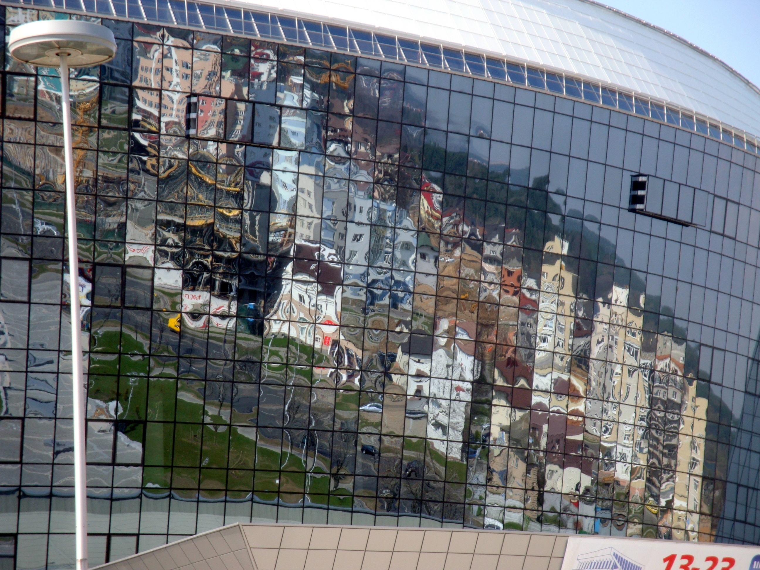 Minsk, new ice-hockey hall